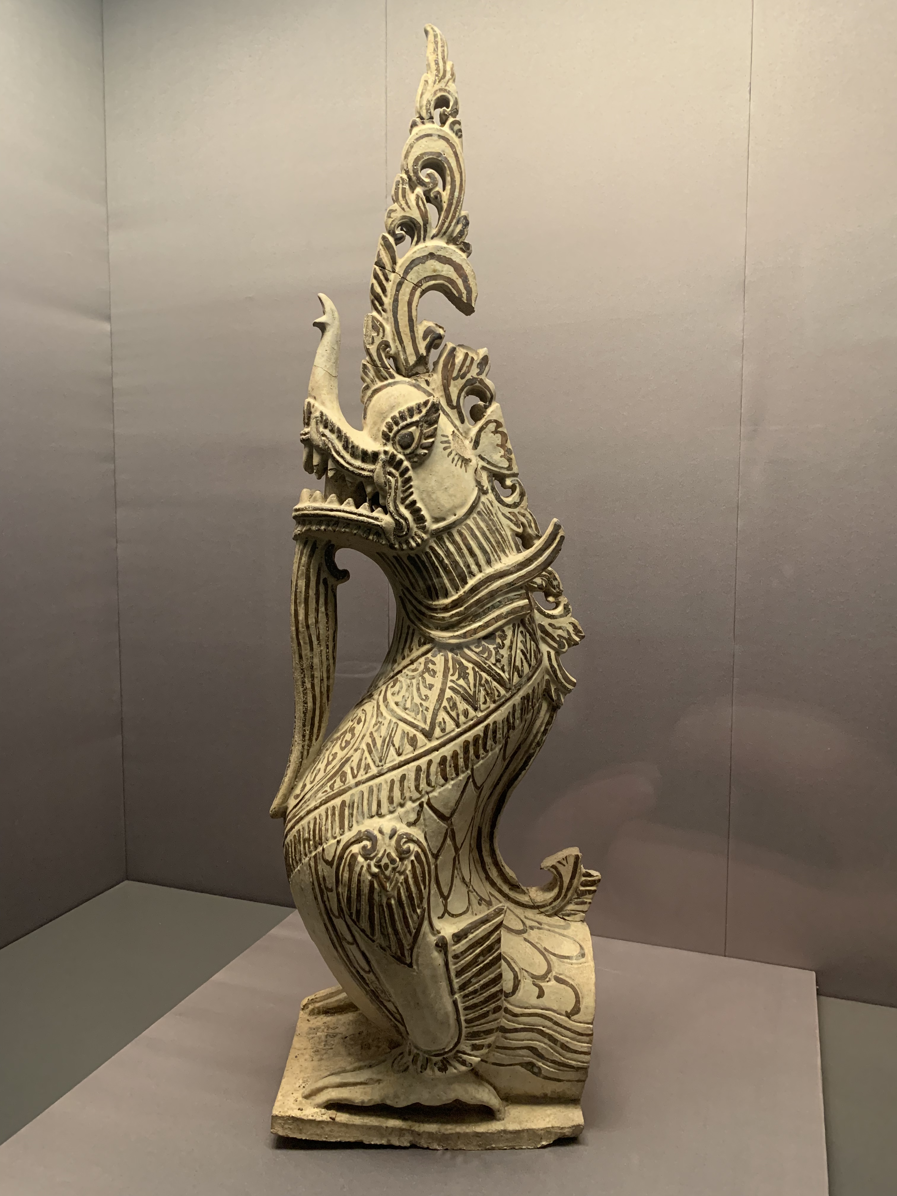 Makara (Indian mythical dragon), Bangkok National Museum